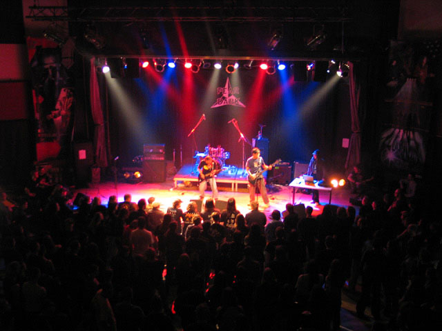 Free photo from Kekal